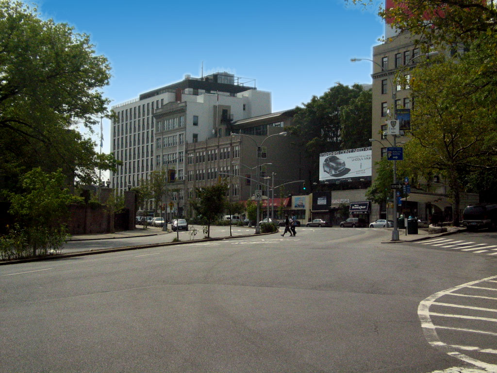 Downtown St. George, Staten Island, NY